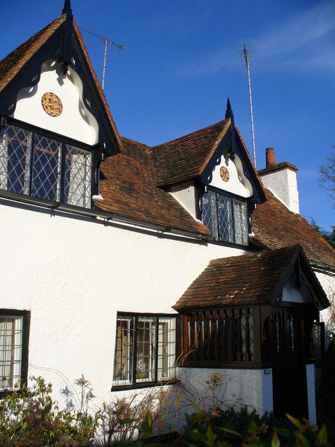 Old Shere One of many historic and renovated buildings in Shere. This one is now furniture-related business.